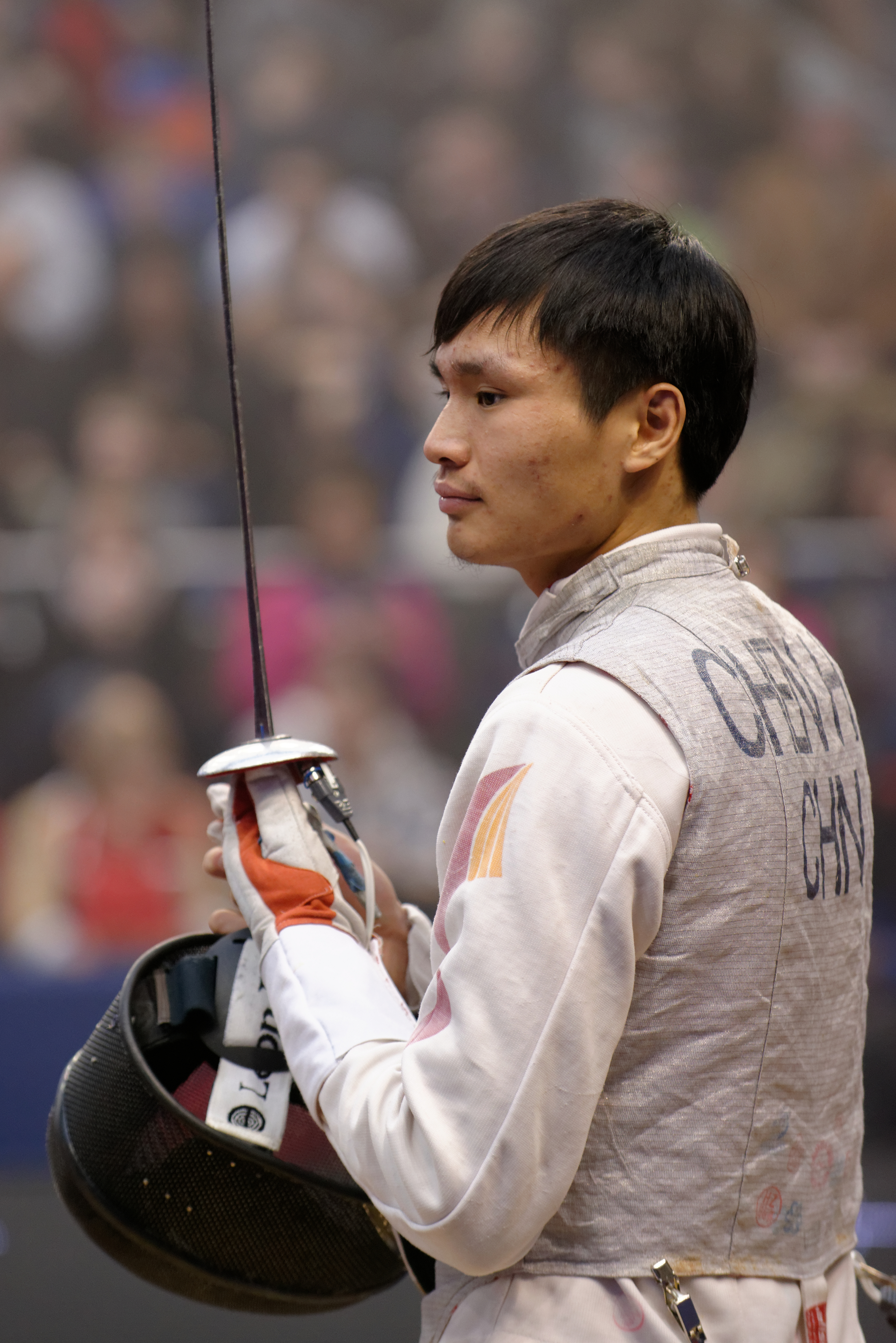 Chen Haiwei of China during the team event of the Challenge International de Paris (men's foil World Cup).